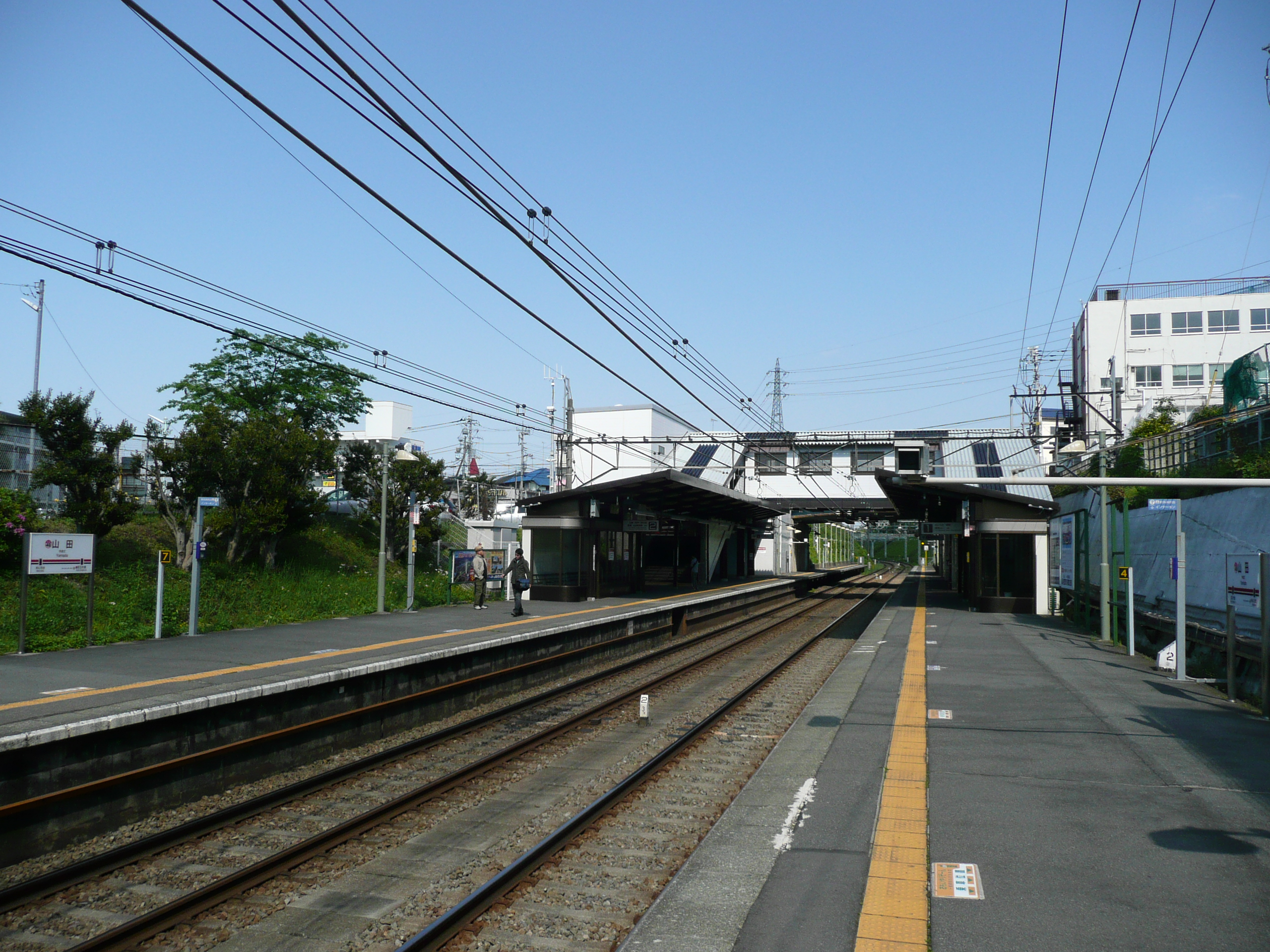 Platforms of Yamada Station (Tokyo)